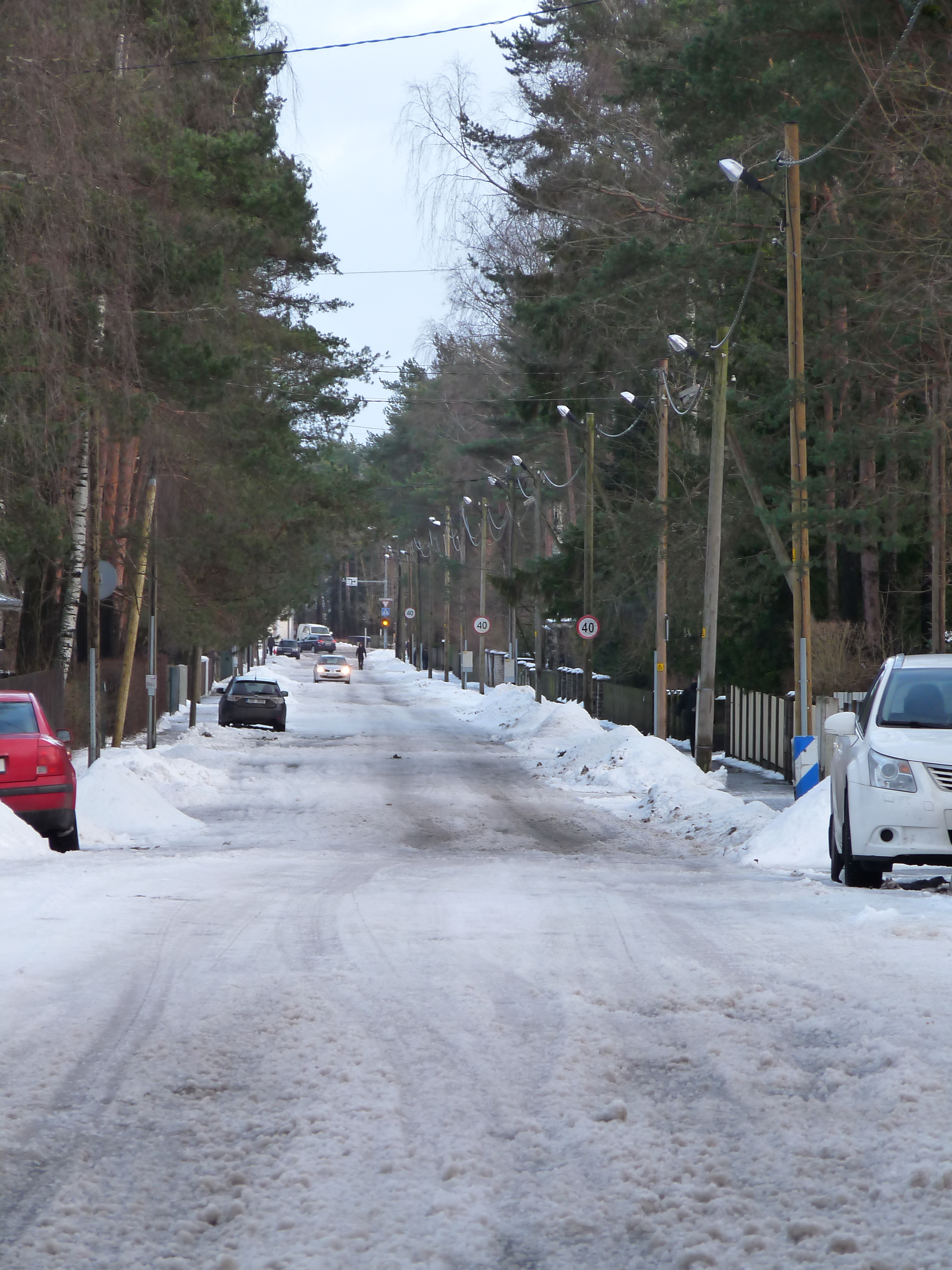 P.Kerese street in Tallinn, Estonia